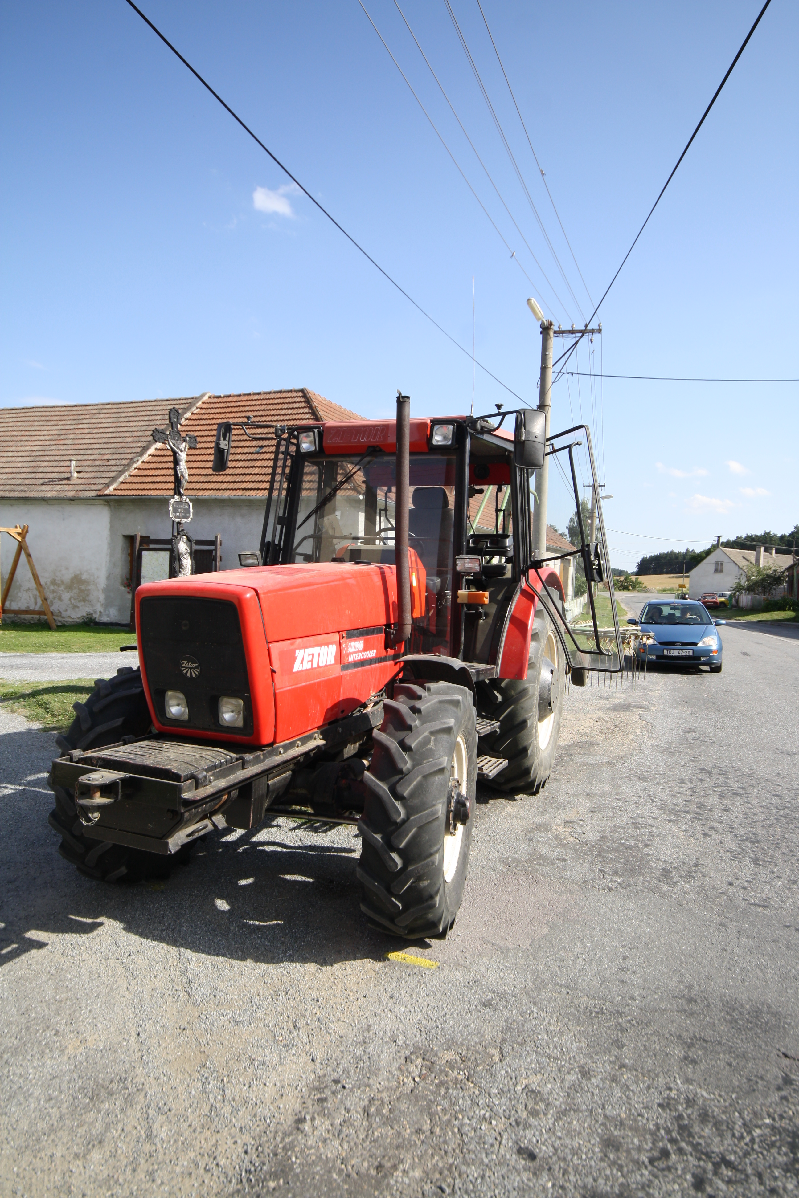 Tractor Zetor in Častotice, Třebíč District.